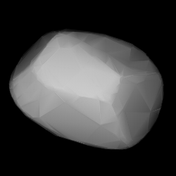 3D convex shape model of 1175 Margo, computed using light curve inversion techniques. J. Hanuš, J. Ďurech, M. Brož, B. D. Warner (June 2011). "A study of asteroid pole-latitude distribution based on an extended set of shape models derived by the lightcurve inversion method". Astronomy and Astrophysics 530: A134. ISSN 0004-6361. arXiv